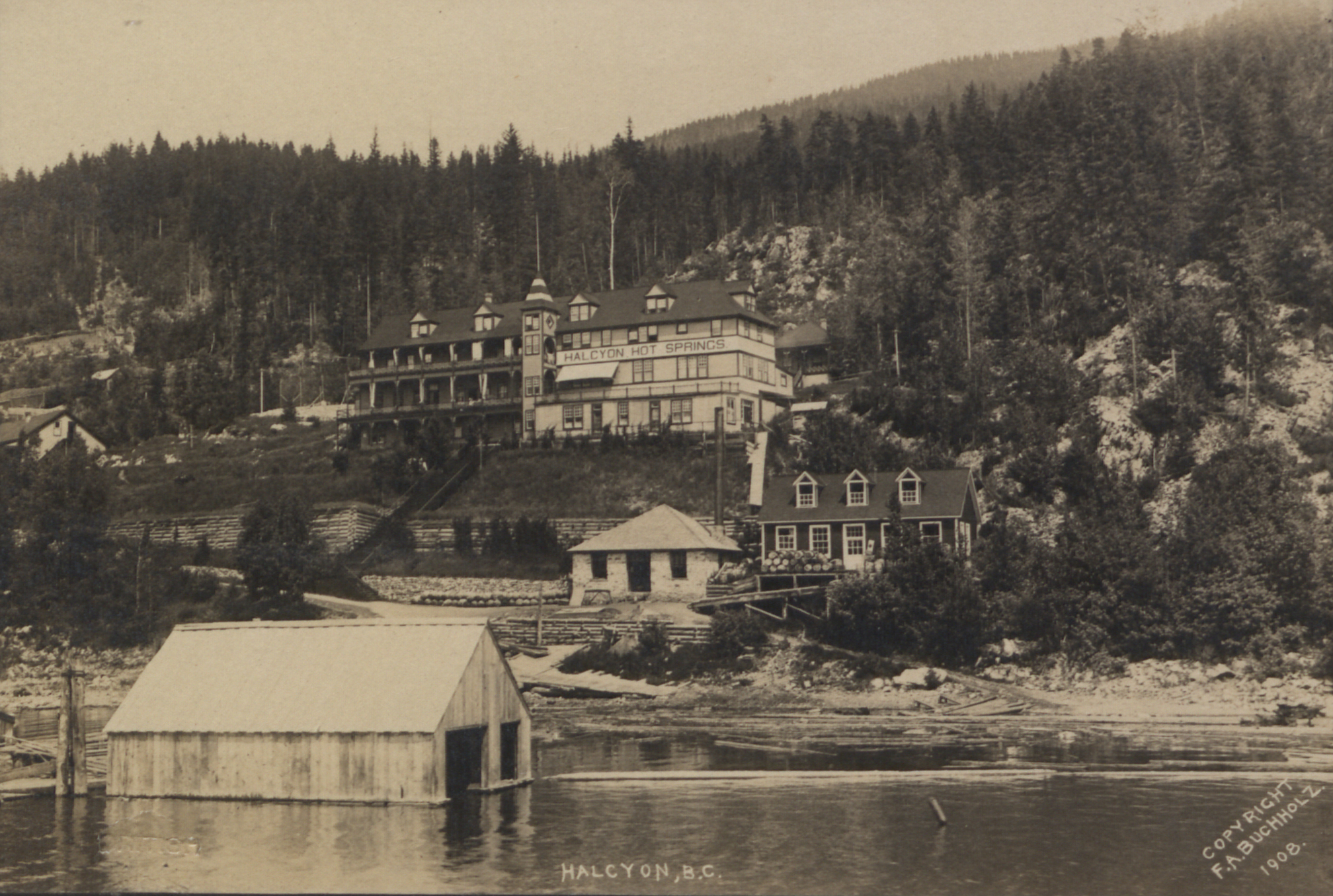 Original caption: “Halcyon, BC.”